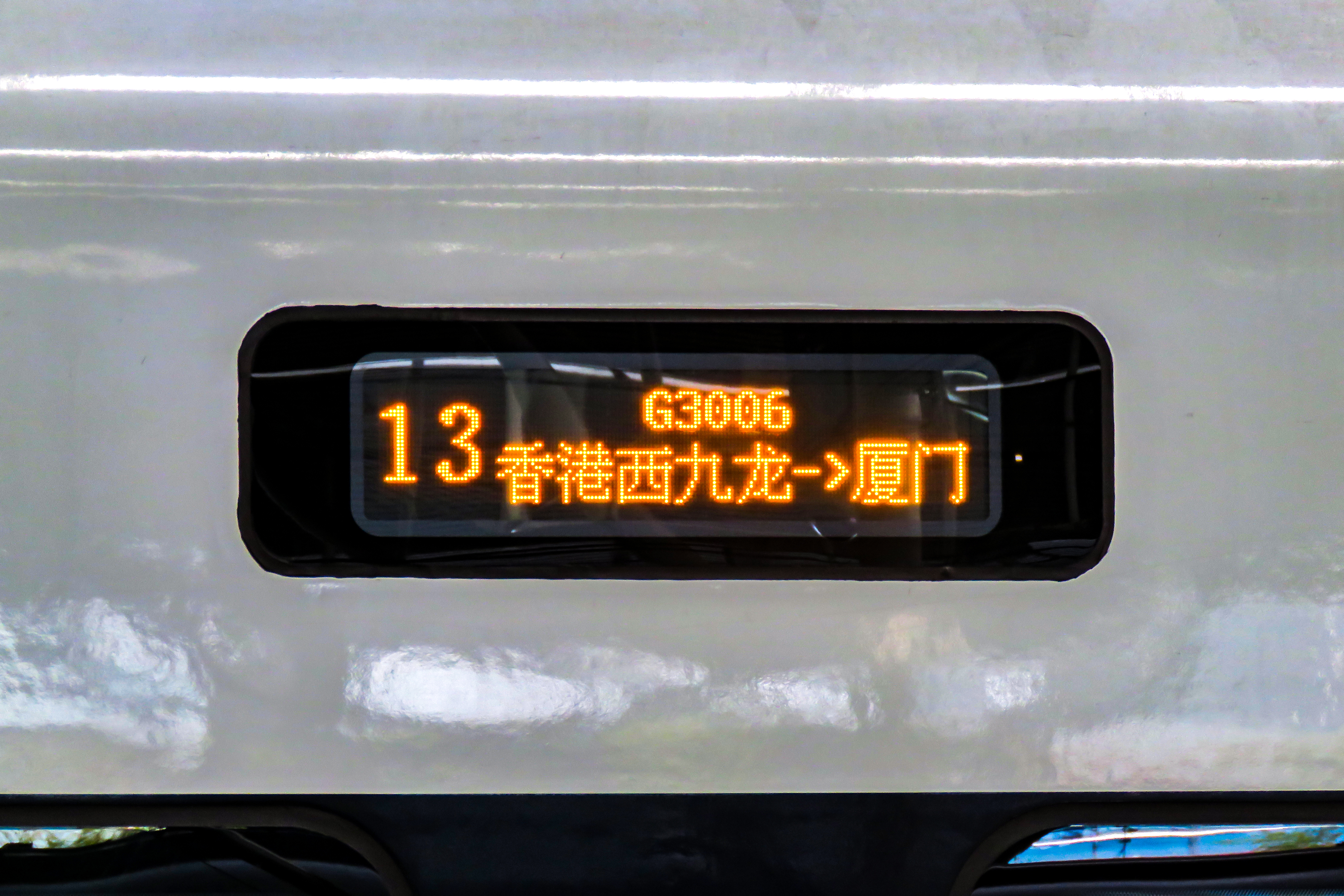 G3006 from HK West Kowloon to Xiamen.